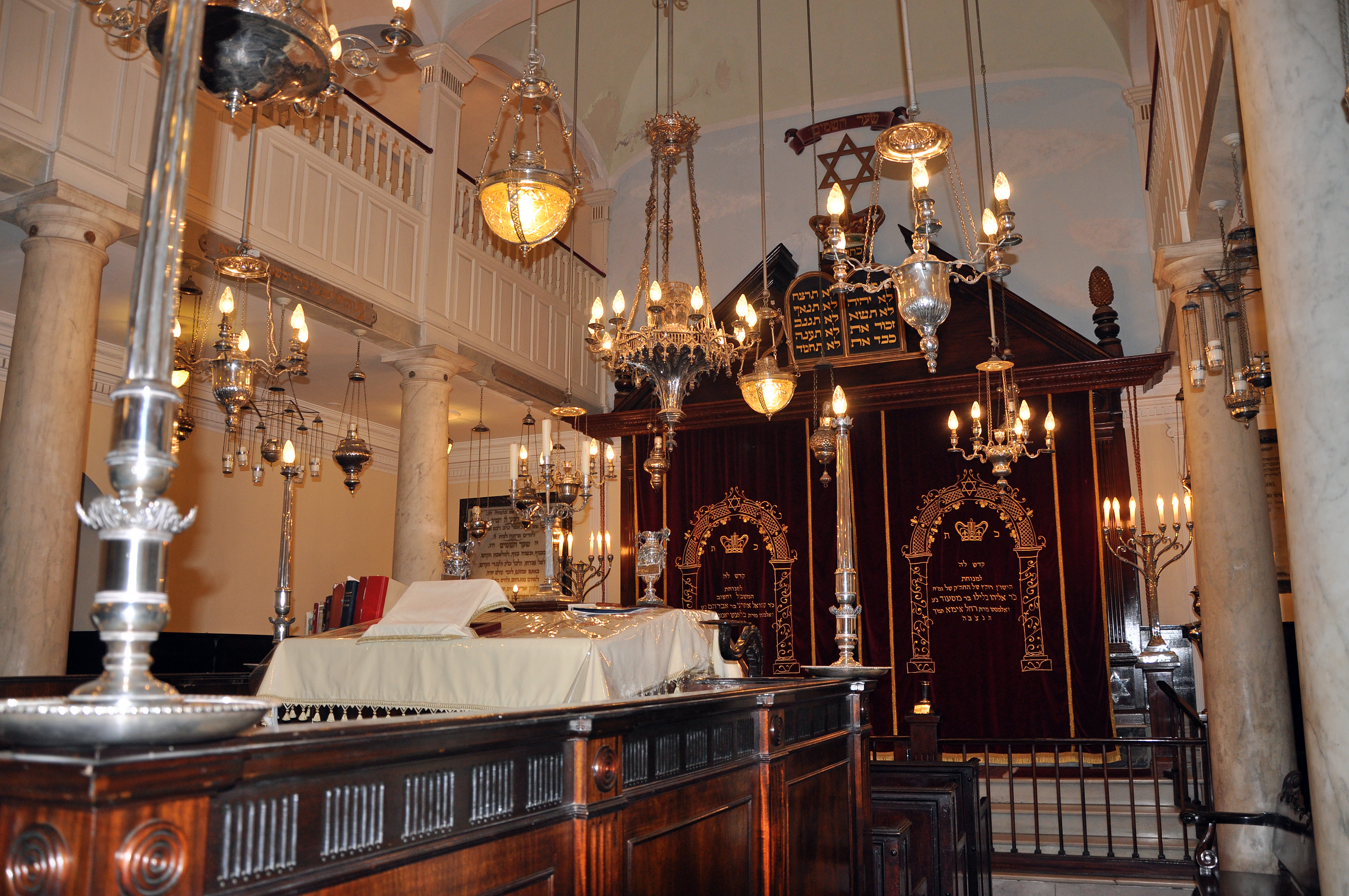 inside Sha'ar Hashamayim Synagogue (aka La Esnoga Grande/Great Synagogue), Engineer's Lane, Gibraltar